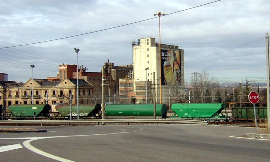 Lleida container-freight train station